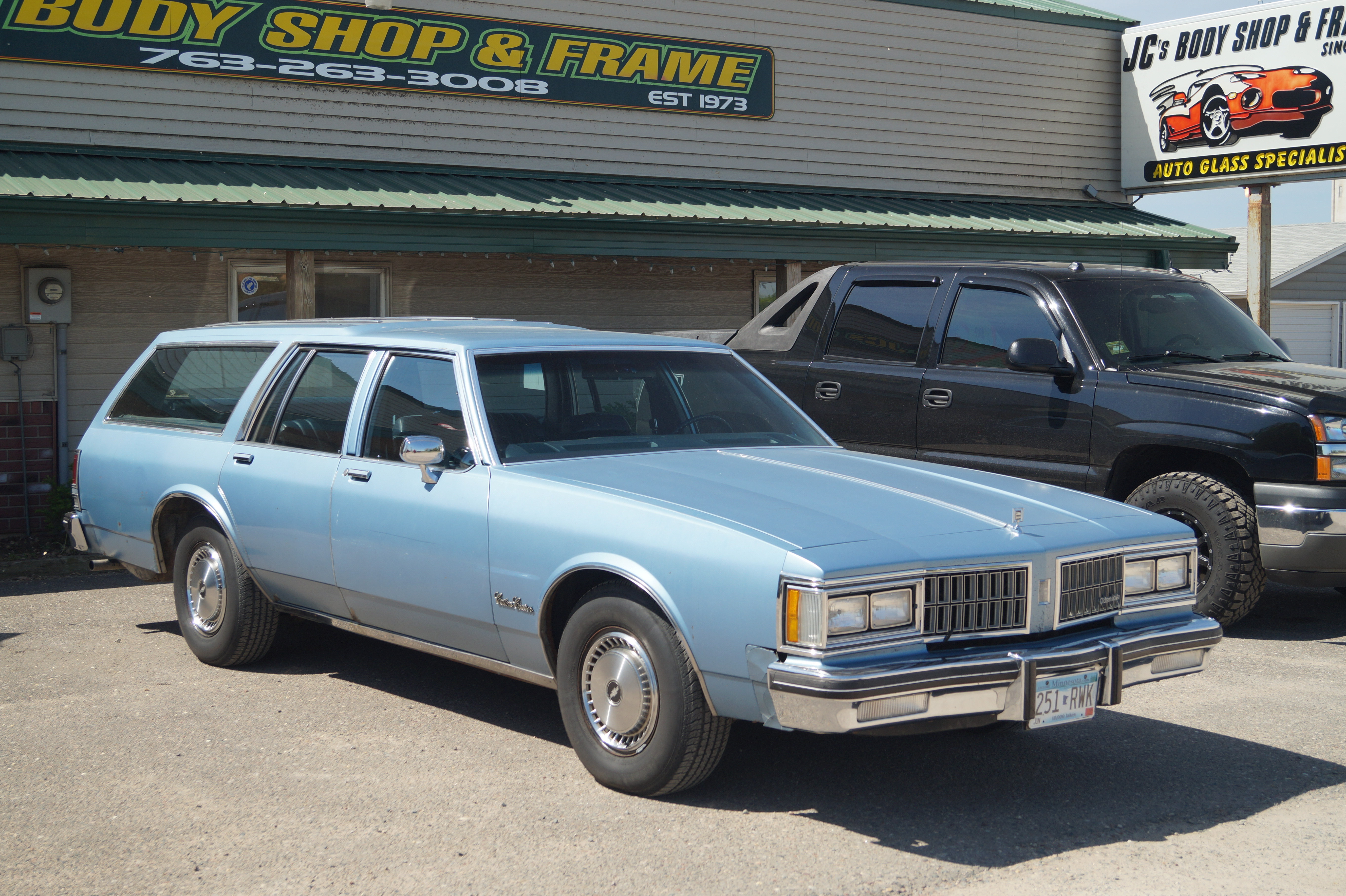 Click here for more car pictures at my Flickr site.